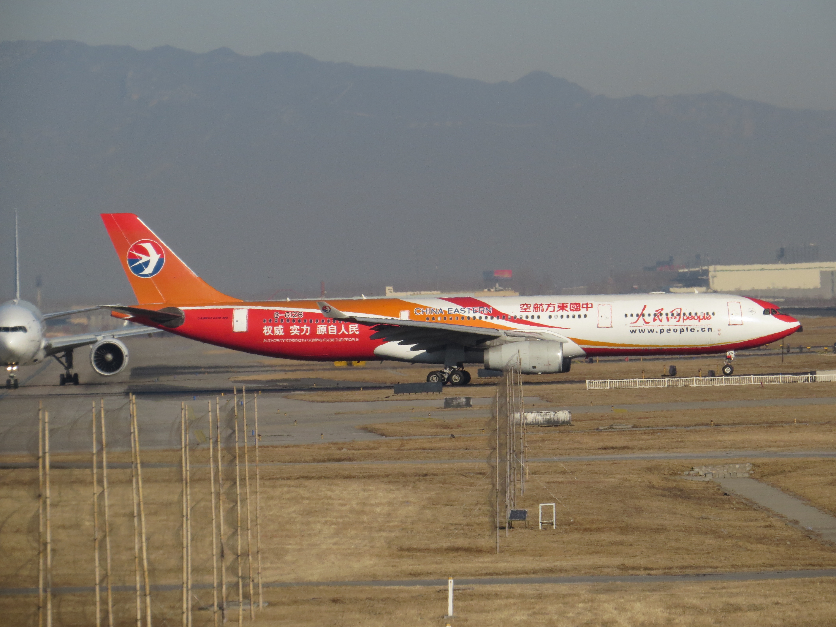 CES5106 to Shanghai-Hongqiao. This "People's Daily" logojet got its appearance in 2012.